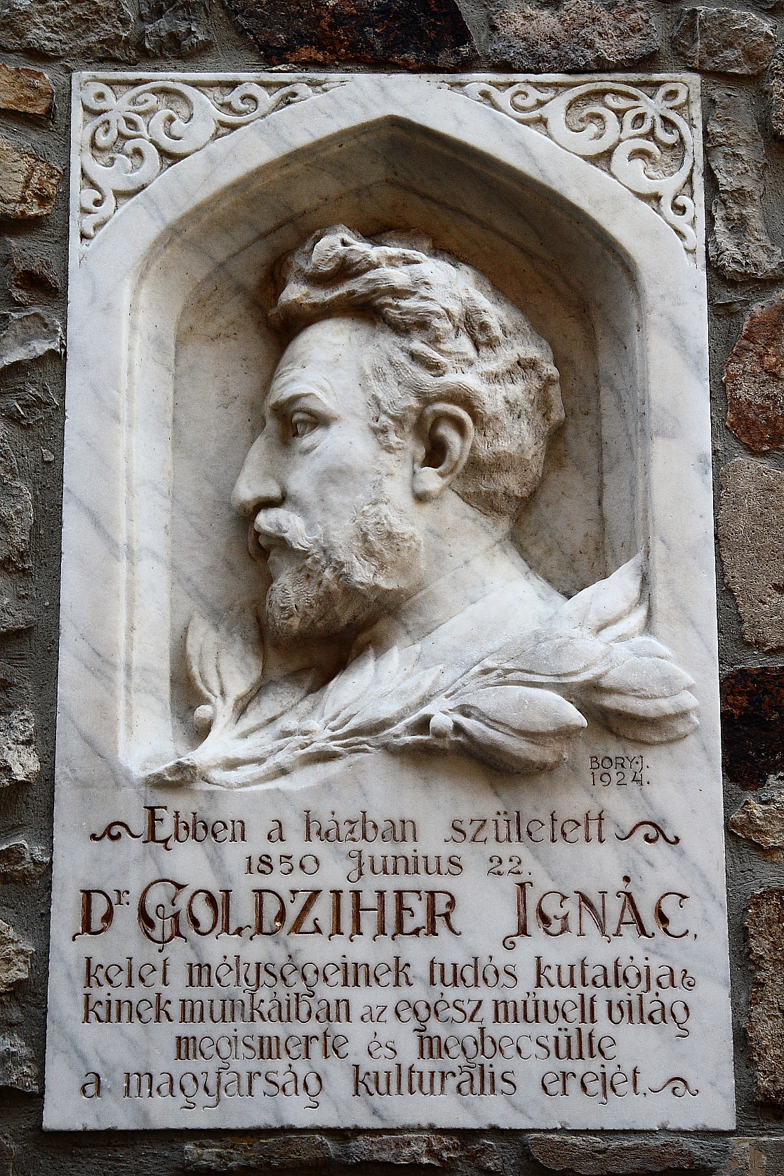 Ignác Goldziher - memorial plaque on the wall of the house where he was born in Székesfehérvár